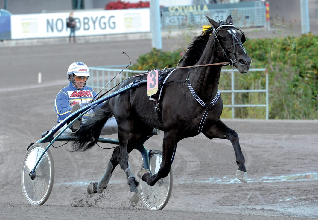 Driver Jorma Kontio and trotting horse Chelsea Boko 2012.